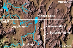 Topographic map of the northern Great Basin region of California. Also portions of the Great Basin region in northwestern Nevada (Washoe County) and southeastern Oregon (Lake County). Features labled include: Warner Mountains Surprise Valley (in Modoc County, California) Goose Lake Pit River (upper) © 2004 Matthew Trump